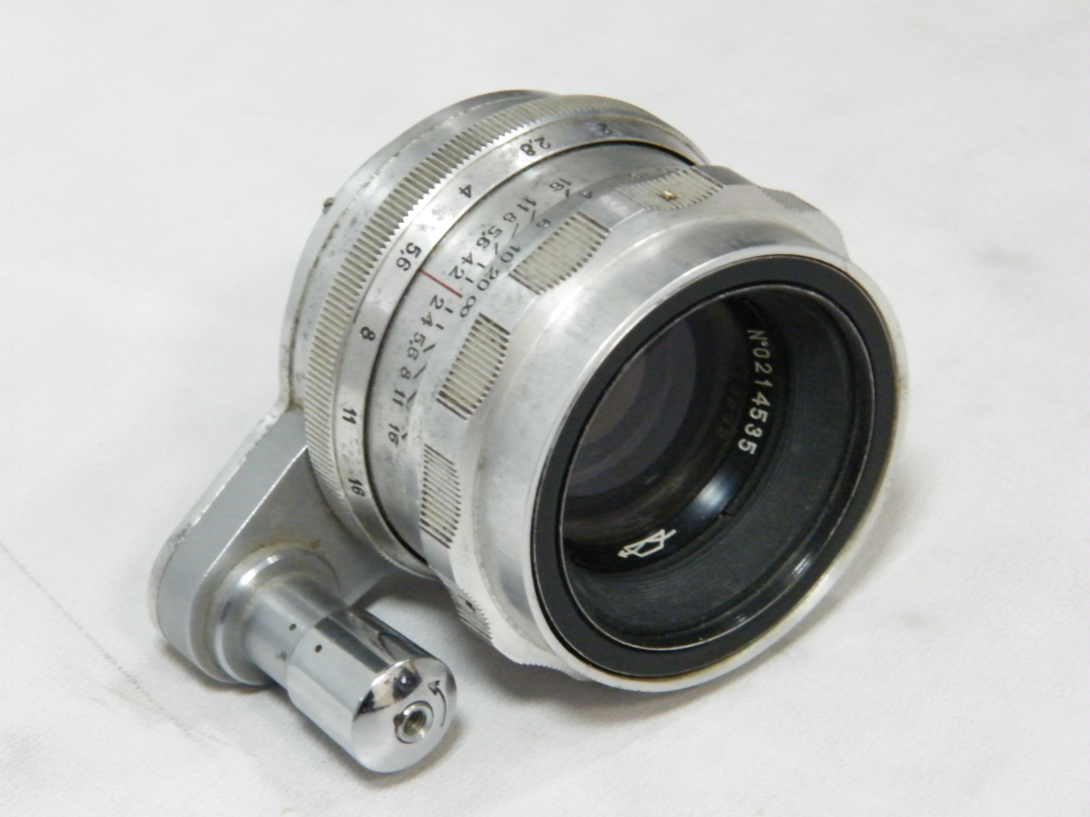 HELIOS-44 FOR START camera from Evgeniy Okolov collection